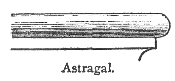 Illustration from 1908 Chambers's Twentieth Century. Astragal, n. (archit.) a small semicircular moulding or bead encircling a column.